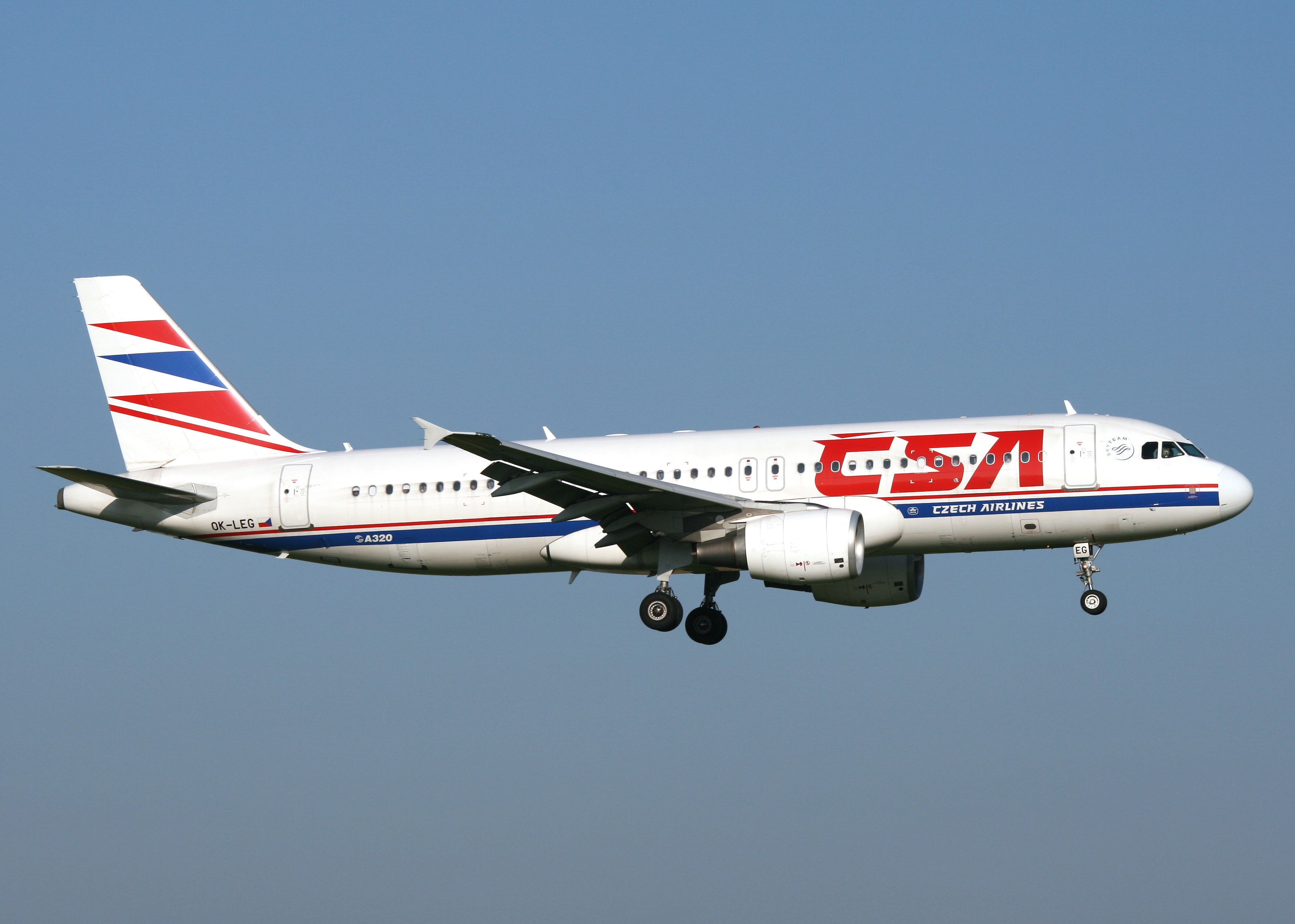 Ams / Eham 24-07-08